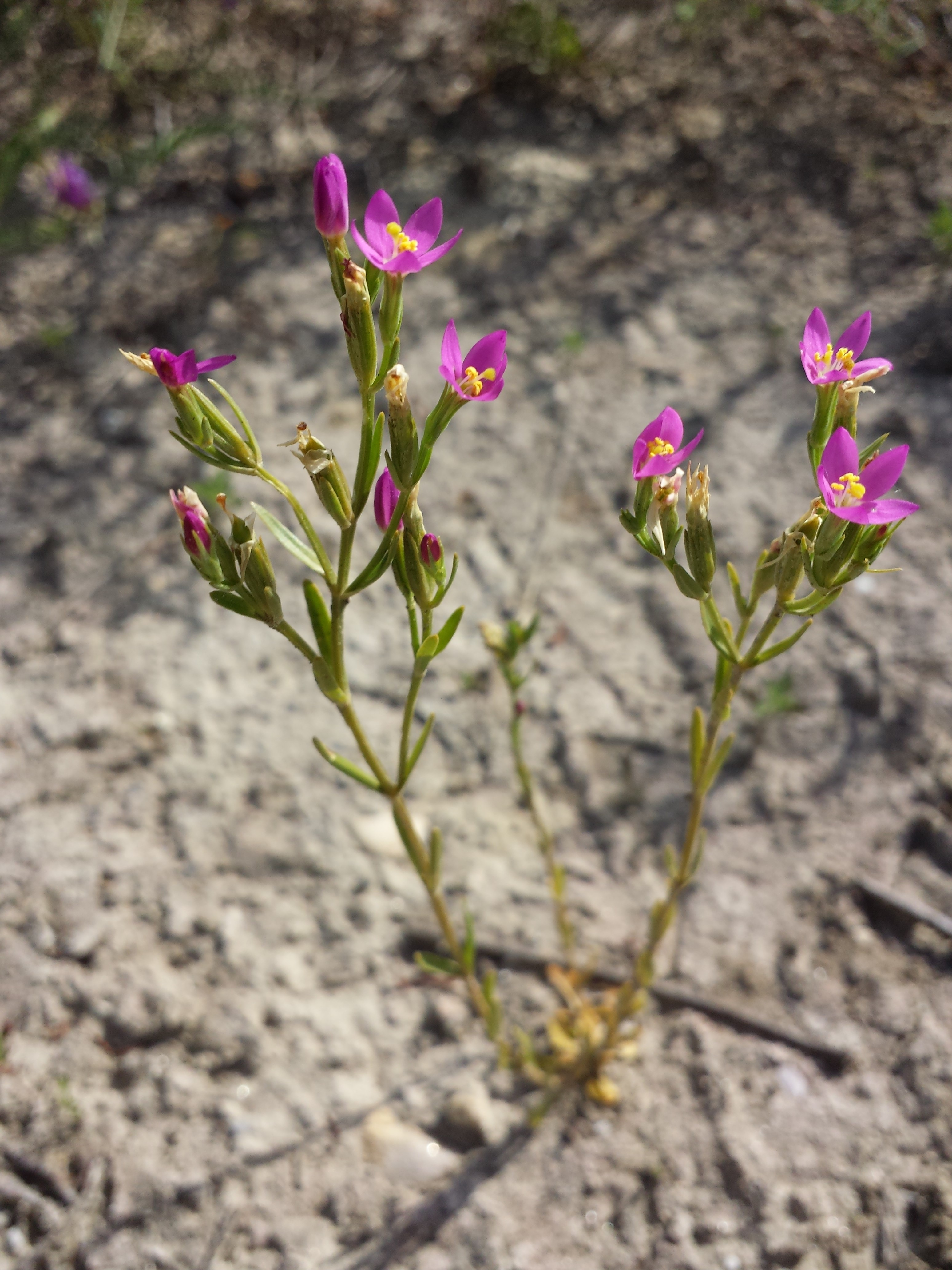 Habitus Taxon: Centaurium littorale subsp. uliginosum (sensu Fischer et al. EfÖLS 2008 ISBN 978-3-85474-187-9) Location: abandoned marshalling-yard Breitenlee, Vienna-Donaustadt - ca. 160 m a.s.l. Habitat: dry grassland